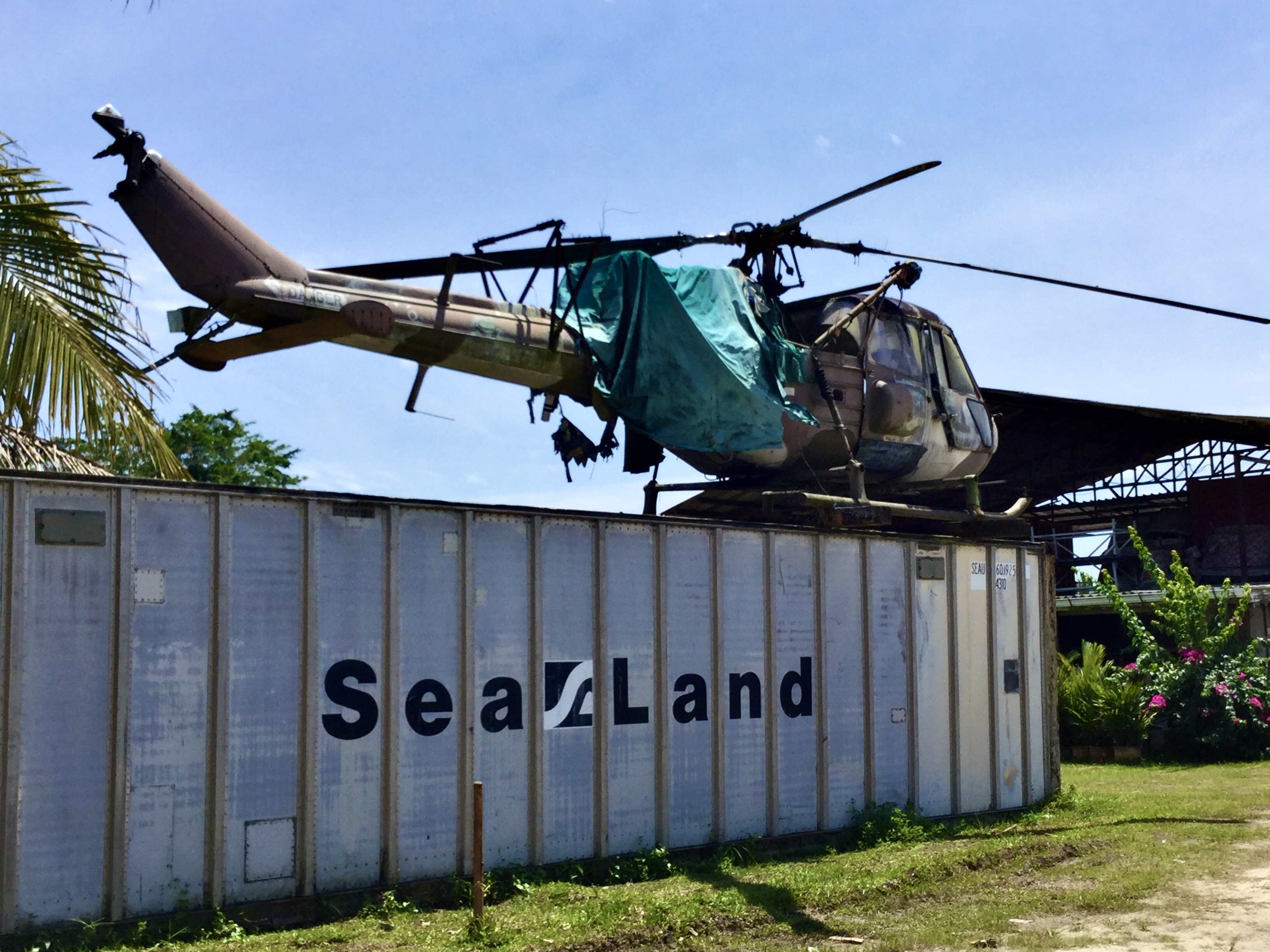 Brunei